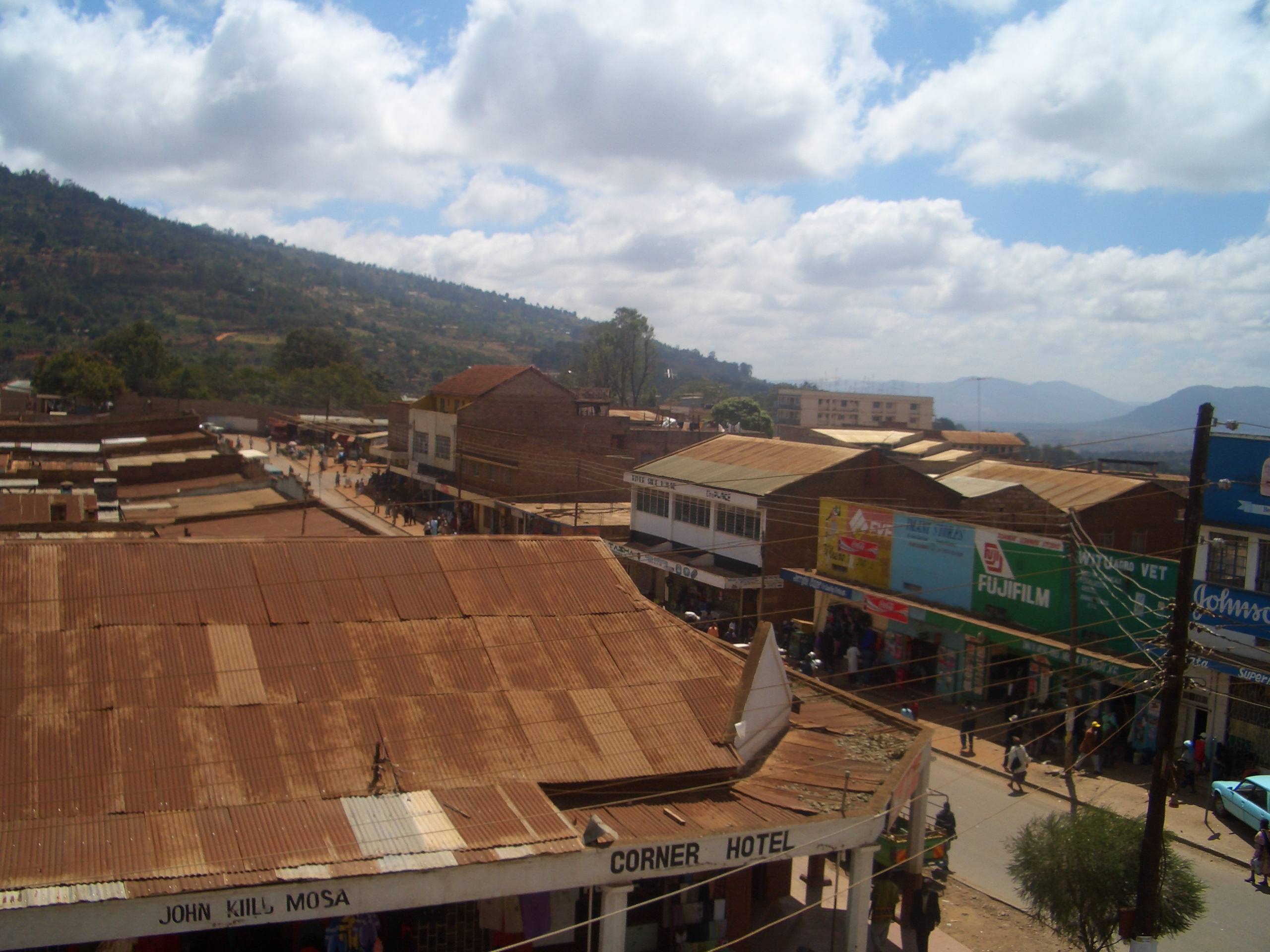 Machakos, Kenya